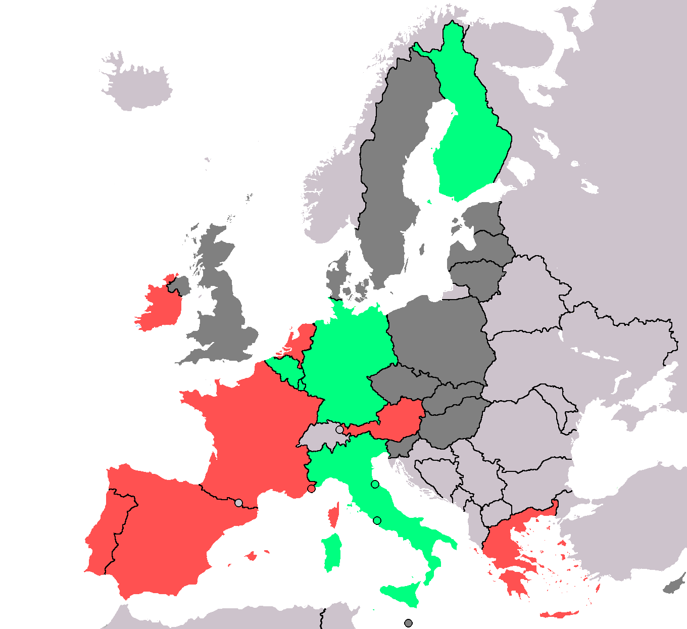 Where states was printing 2euro coin in the year 2006